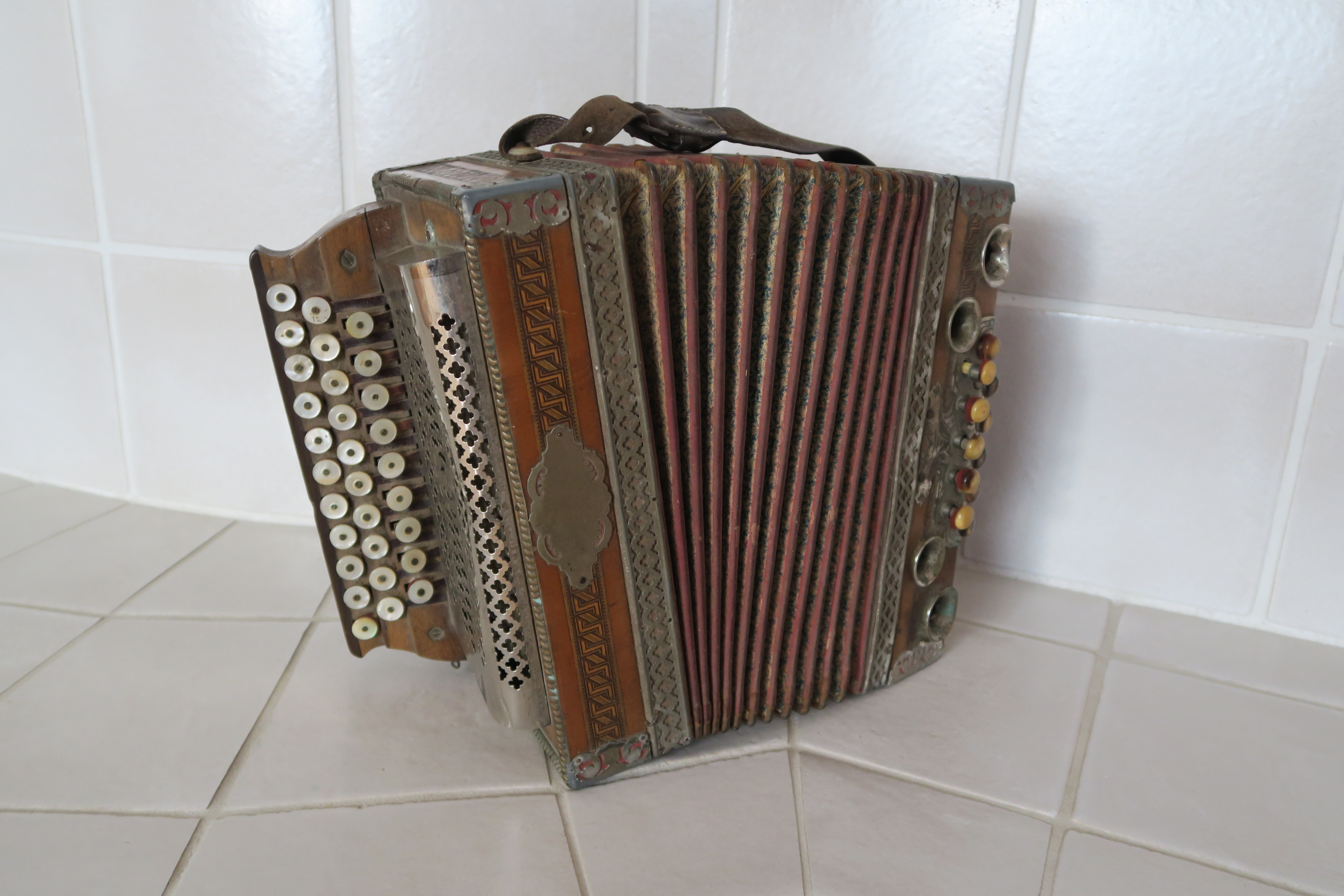 Steirische Harmonika